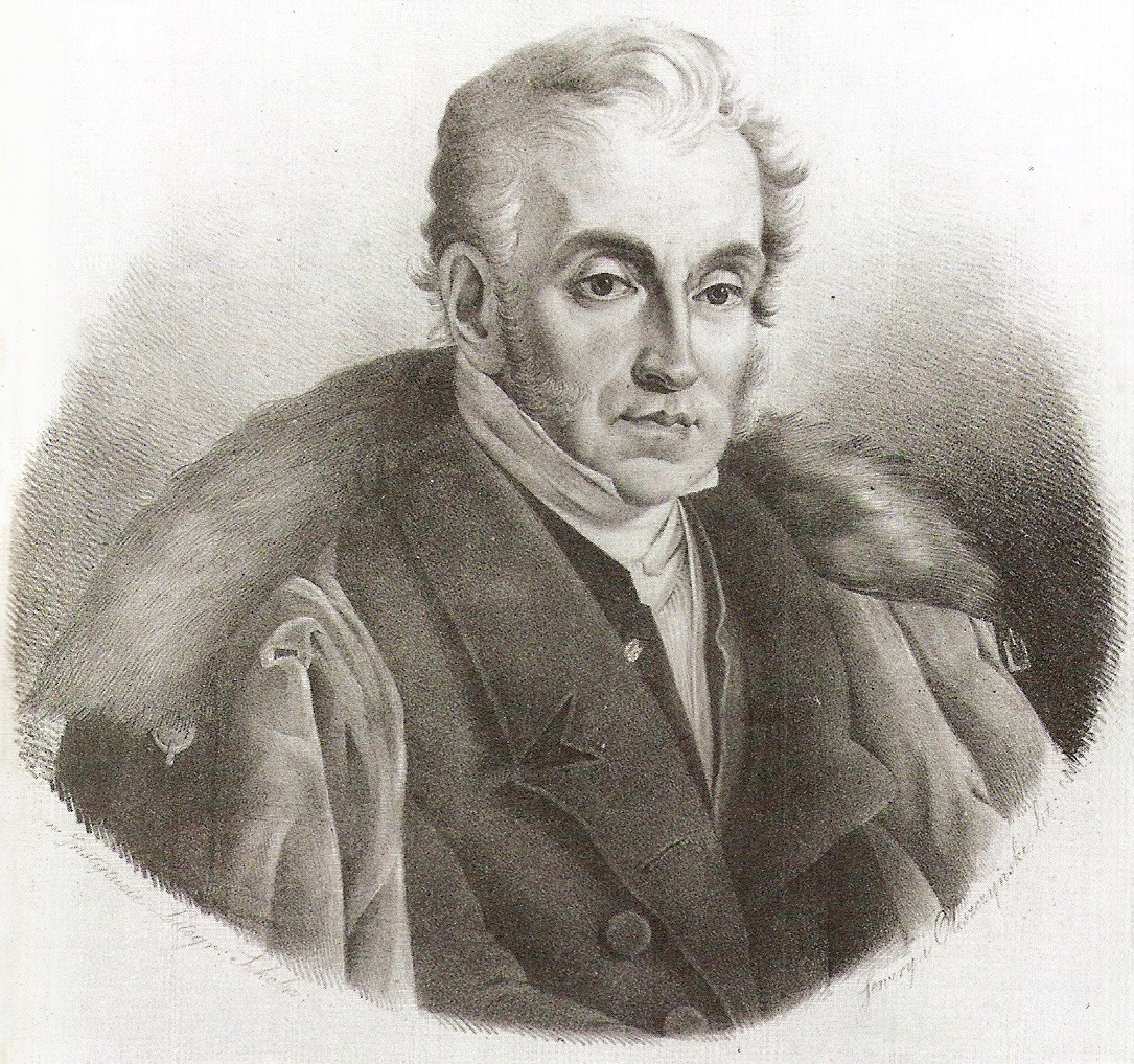 Polish Duke Adam Jerzy Czartoryski